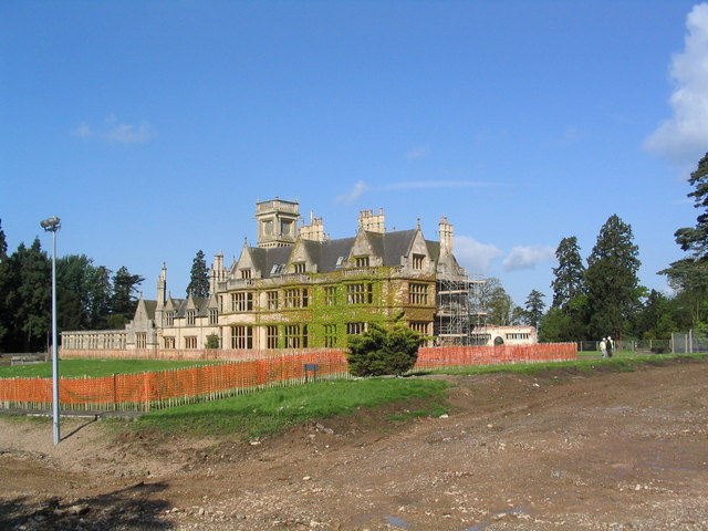 Widmerpool Hall. Formerly an AA training and conference centre, and now being converted into luxury flats. Outlying buildings, post-dating the Hall, have been cleared for luxury housing. On the whole it appears to be a reasonably careful development.